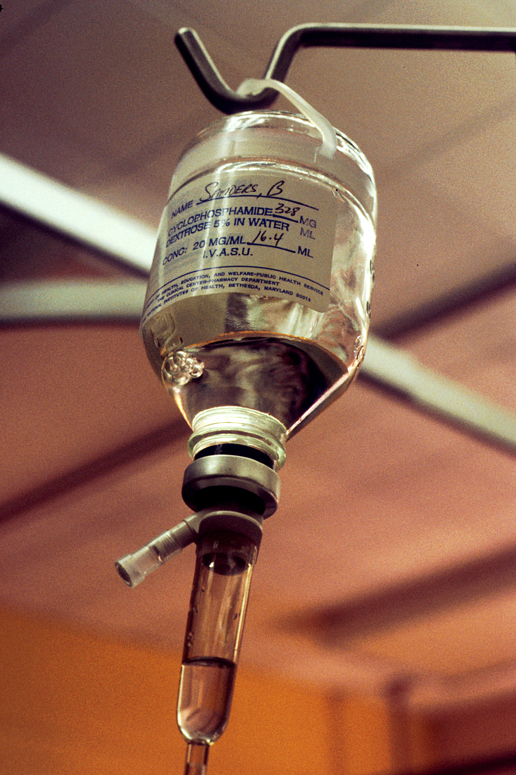 Title: Treatment: IV Bottle Description: Shown is a close-up of an intravenous (IV) bottle. The photograph is taken looking up at the bottle. Subjects (names): Topics/Categories: Treatment -- Drugs/Chemotherapy Type: Color Slide Source: National Cancer Institute Author: Linda Bartlett (photographer) AV Number: AV-8000-0596 Date Created: 1980 Date Added: 1/1/2001 Reuse Restrictions: None - This image is in the public domain and can be freely reused. Please credit the source and/or author listed above.